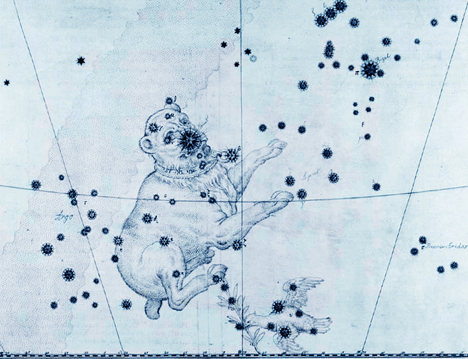 Canis Major in the Uranometria atlas